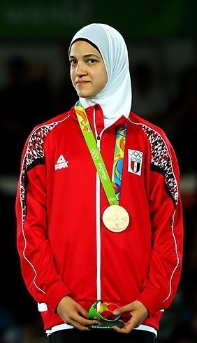 Taekwondo at the 2016 Summer Olympics – Women's 57 kg. Hedaya Malak (Egypt), bronze medal.